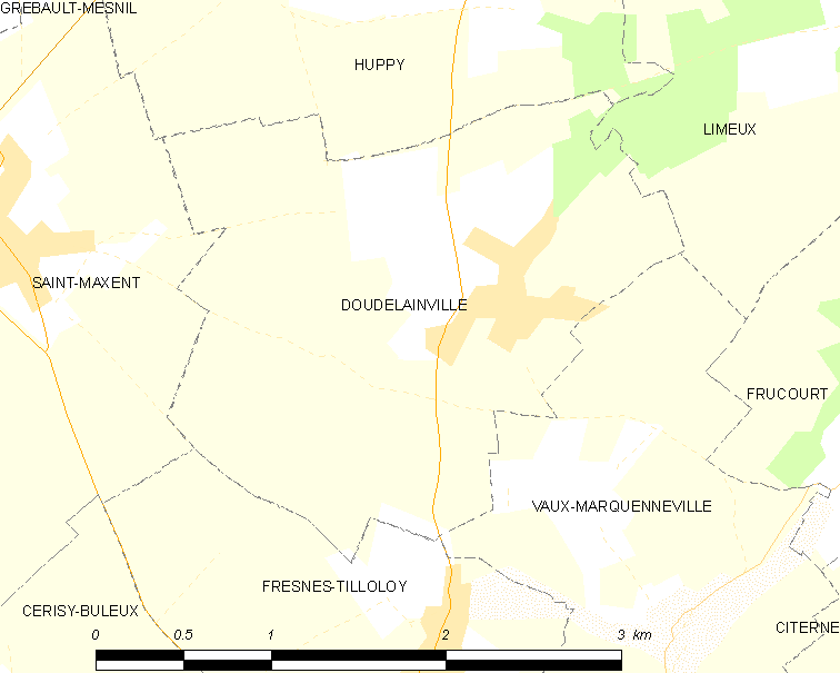 Map of French municipality Doudelainville